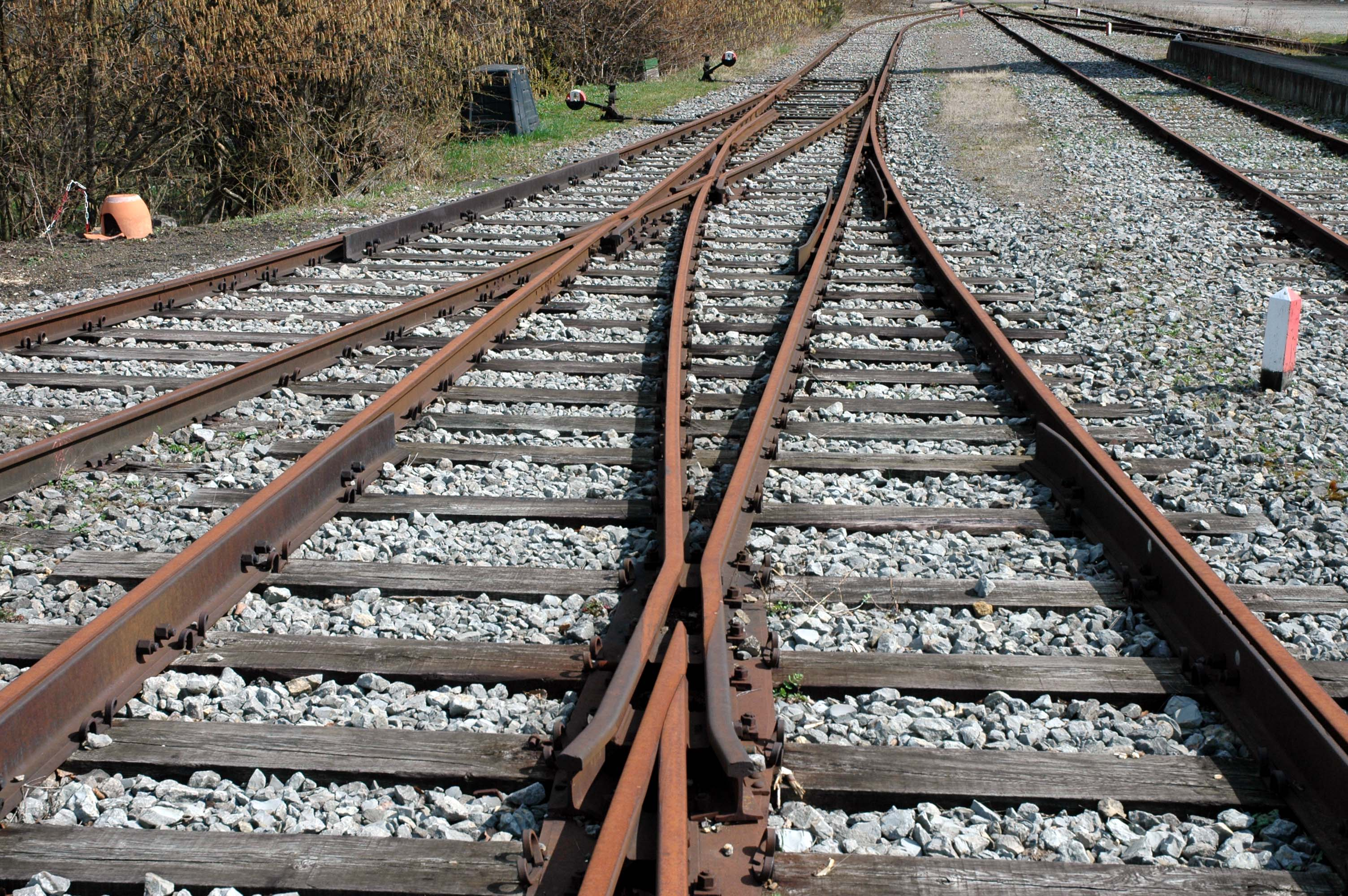 Double switch at abandoned station of Enzweihingen.